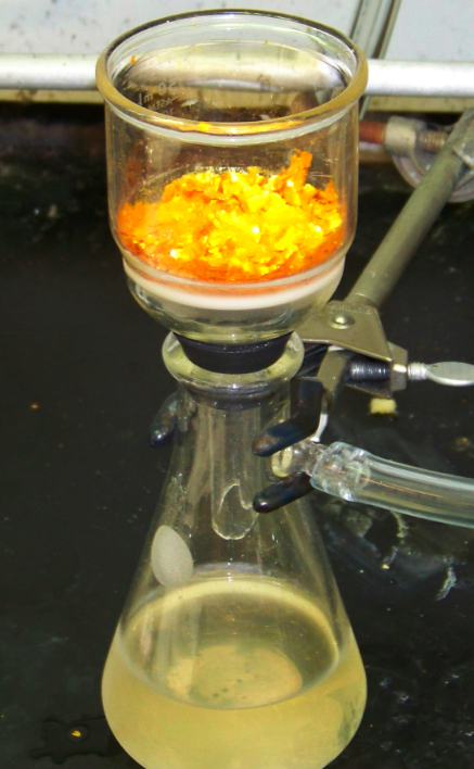 a sample of filtered off solid (Fe2(CO)9) in a sintered glass filter funnel and filtrate in a side-arm filter flask